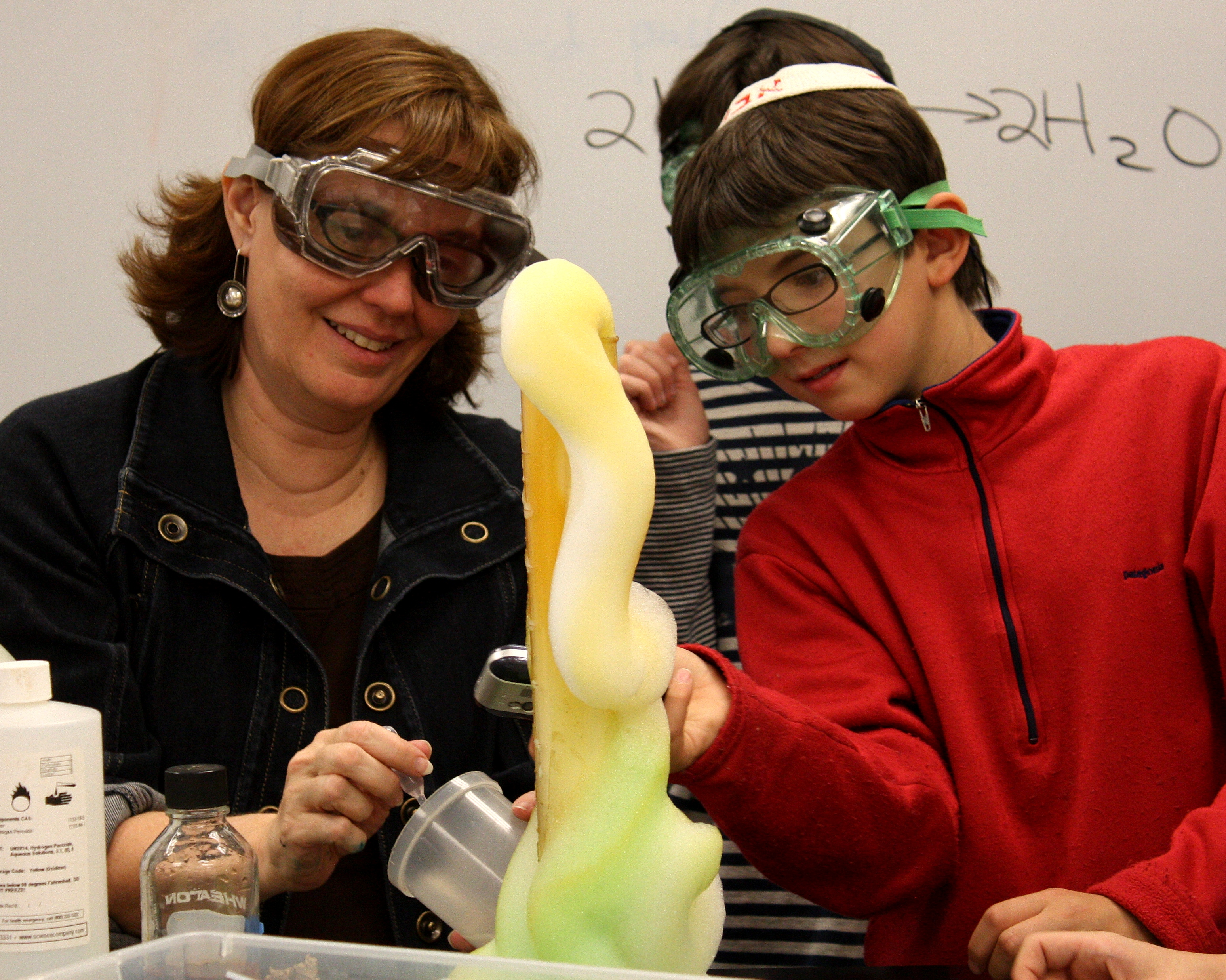 Elephant Toothpaste, Denver JDS Labs